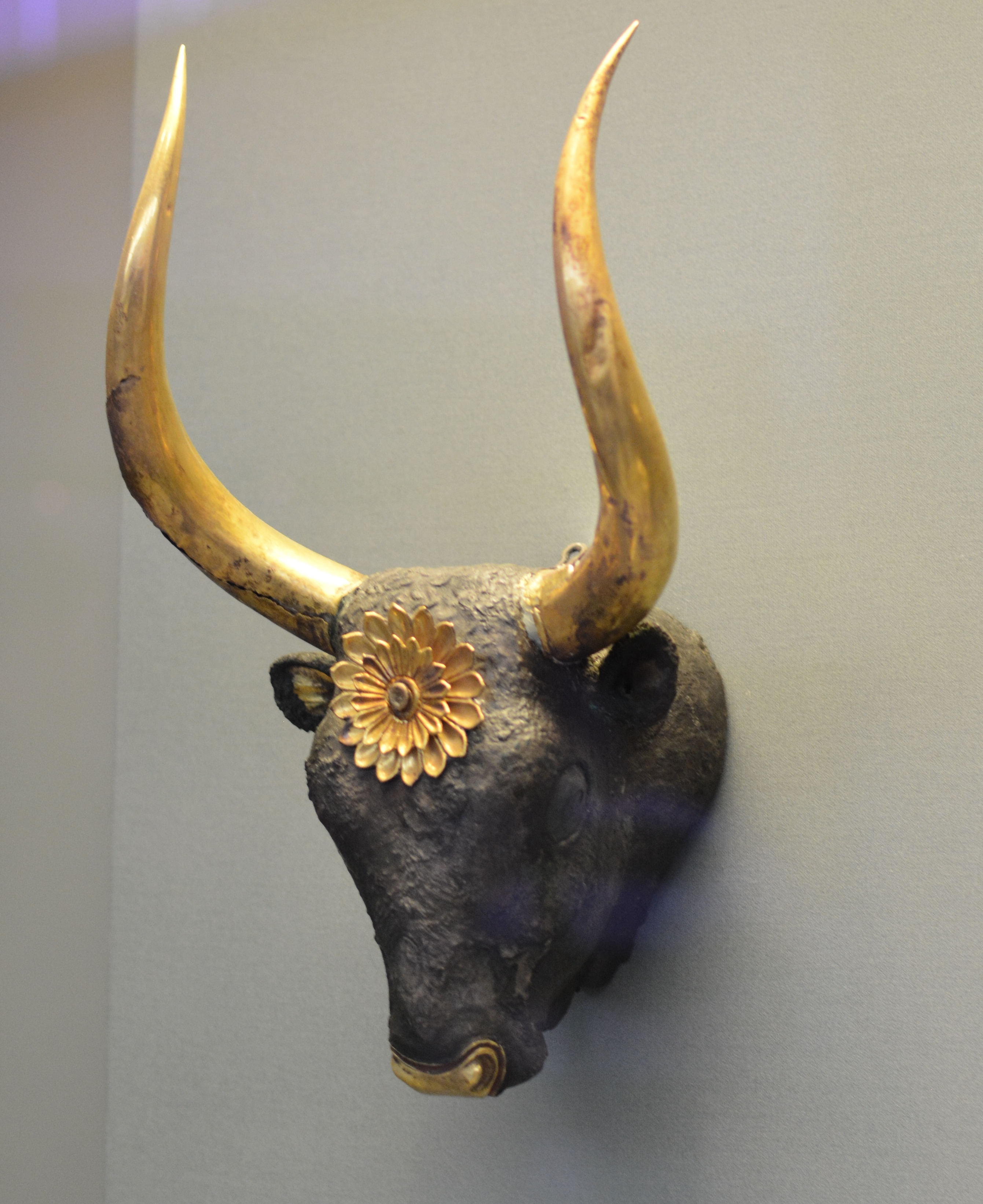 Silver bull's head rhyton from Mycenae, Circle A, Grave IV Cropped from: File:Bull_head_rhyton_Mycenae_Grave_IV.jpg